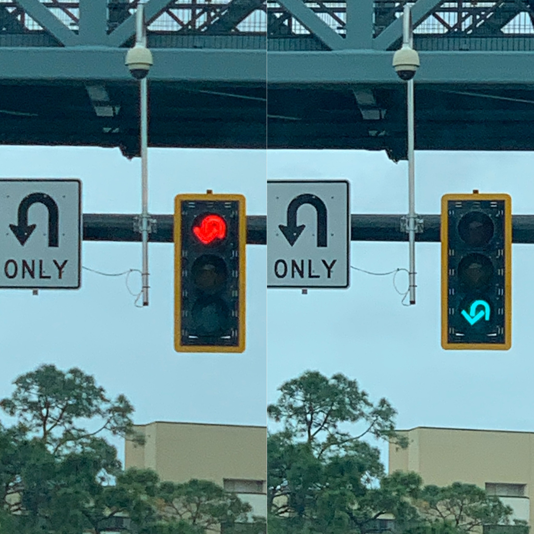 A U-turn traffic light at an intersection allowing left lane to only make a U-turn as photographed in Lake Buena Vista, Florida